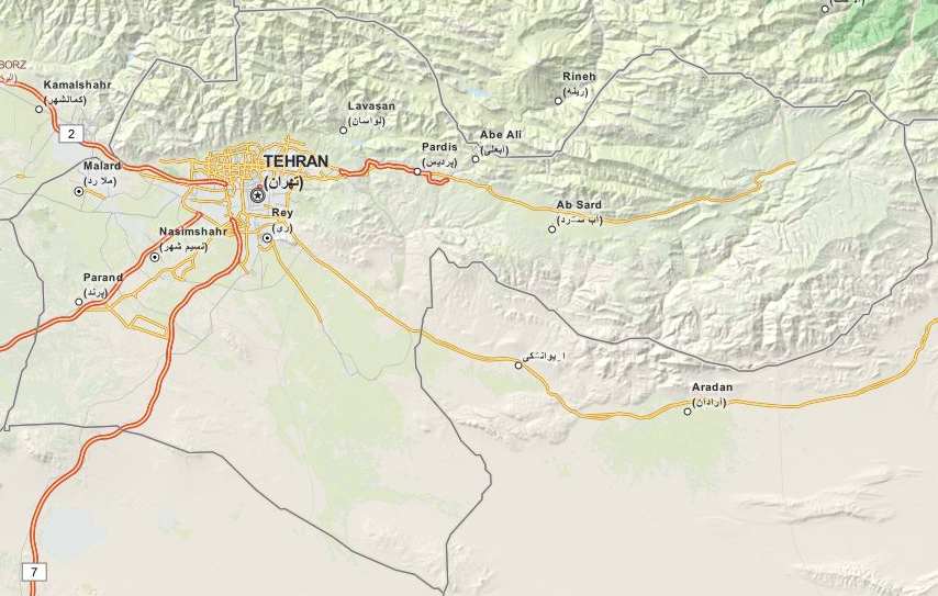 This map may be incomplete, and may contain errors. Don't rely solely on it for navigation.